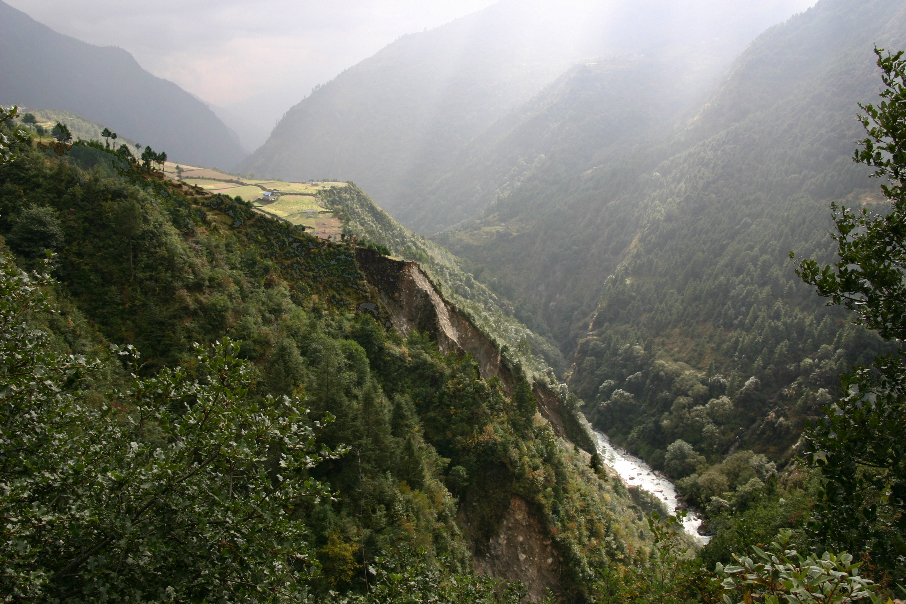 from Lukla to Phakding